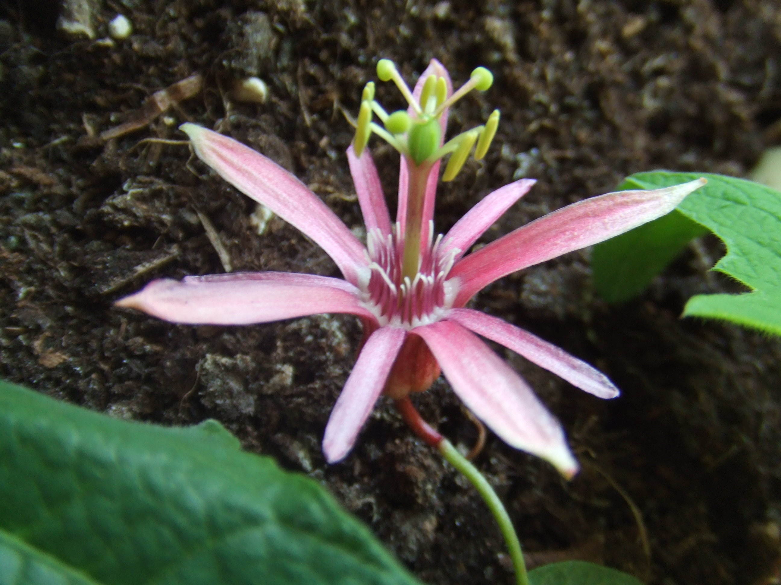 Passiflora sanguinolenta, own collection